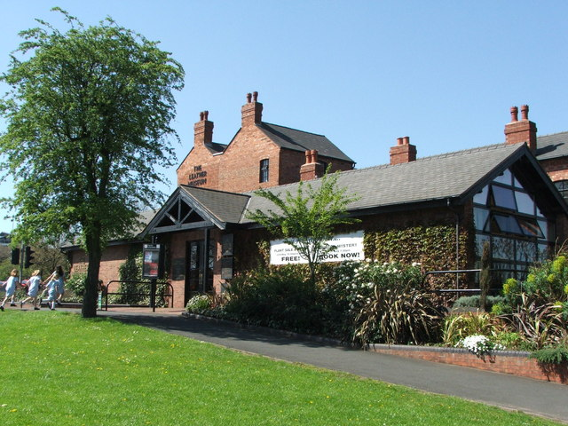 Walsall Leather Museum Leather Museum - Littleton St West, Walsall - Memories of Walsall's past main industry.